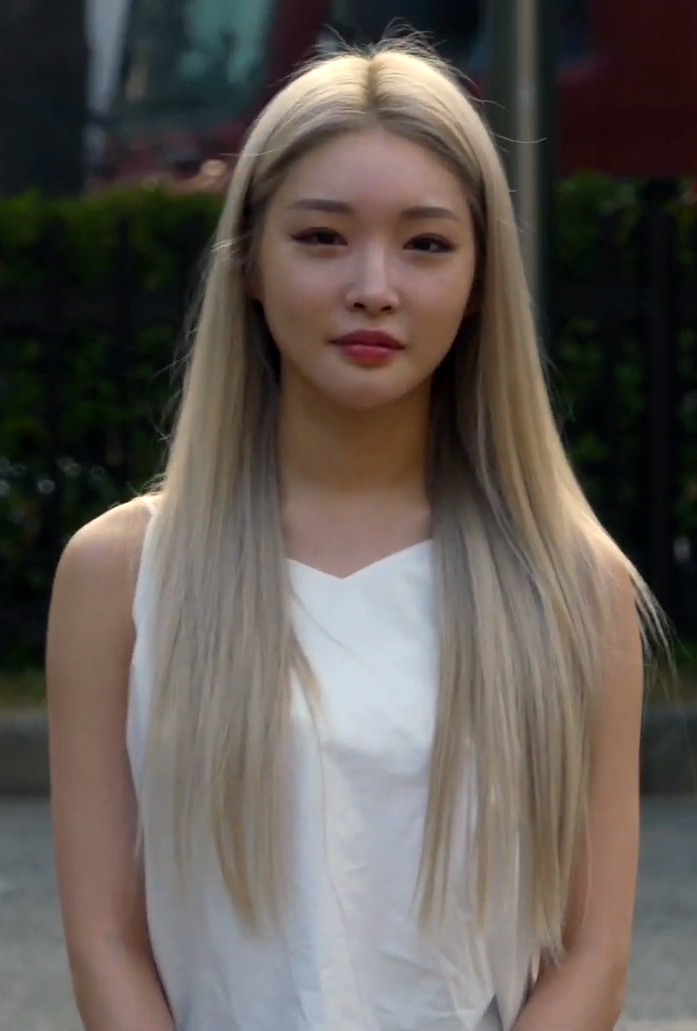 Chungha arriving at a rehearsal for KBS' Music Bank (July 19, 2019)